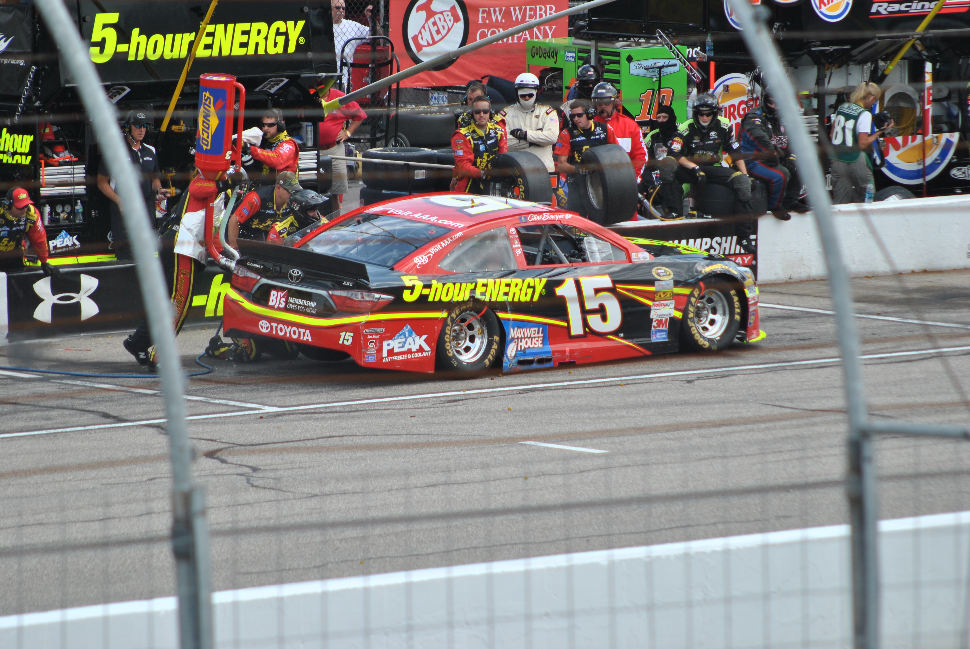 Clint Bowyer pit stop